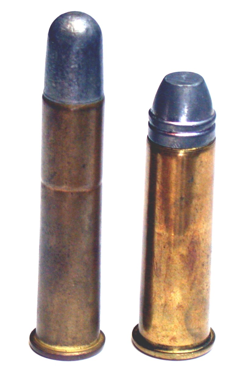 .45-70 Govt. .50-70 Govt